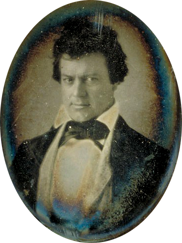 Ninth-plate daguerreotype of Edwin Forrest. TC-37, Harvard Theatre Collection, Harvard University